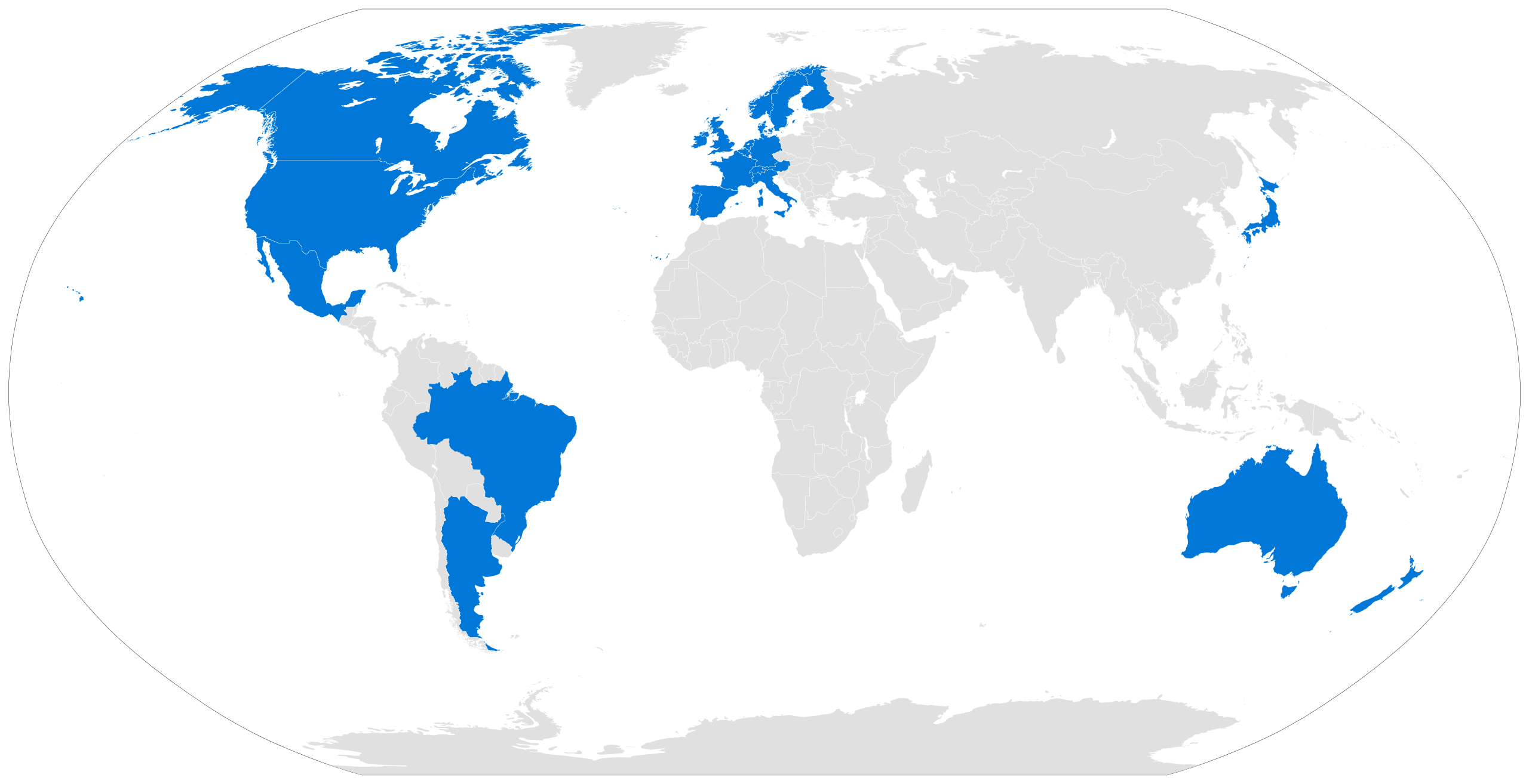 Countries, where Groove Music Pass is available